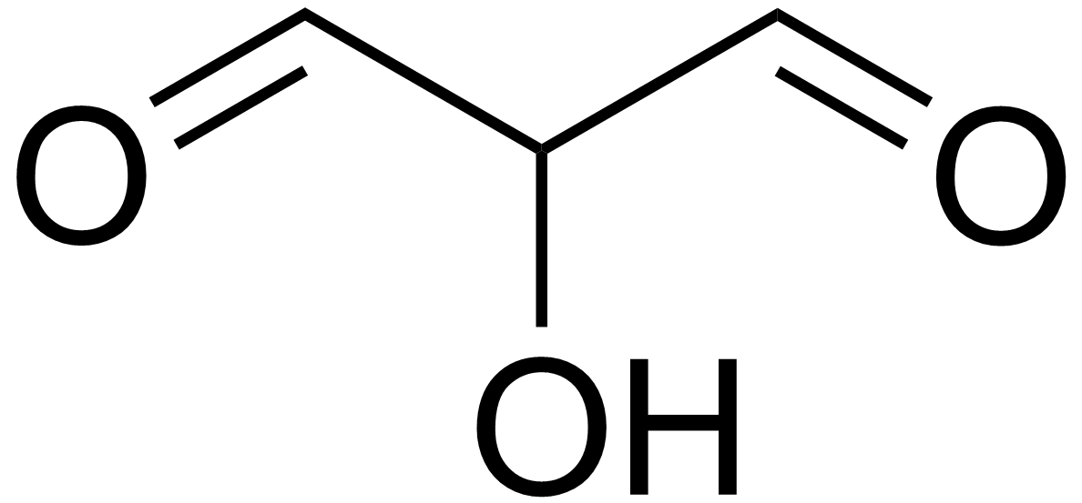 Chemical structure of glucic acid (Reductone; Tartronaldehyde; 2-Hydroxymalonaldehyde; 2-Hydroxymalondialdehyde; Glucose-reductone; Tartronal; Tartronic aldehyde; Triose reductone)